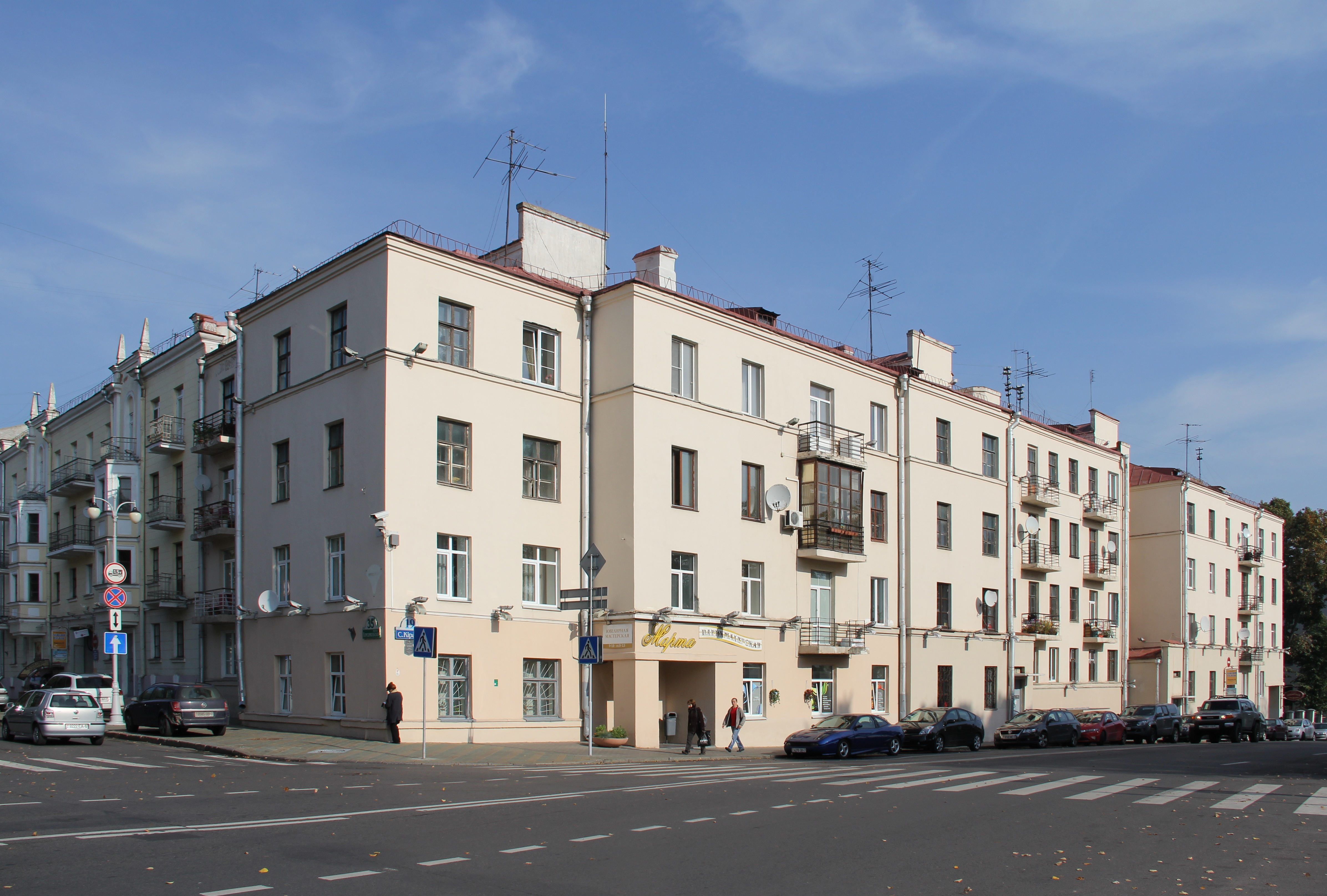 Беларуская (тарашкевіца): Будынак. г. Менск This is a photo of Belarusian heritage monument. Reference number: 713Г000074 ( WLM)